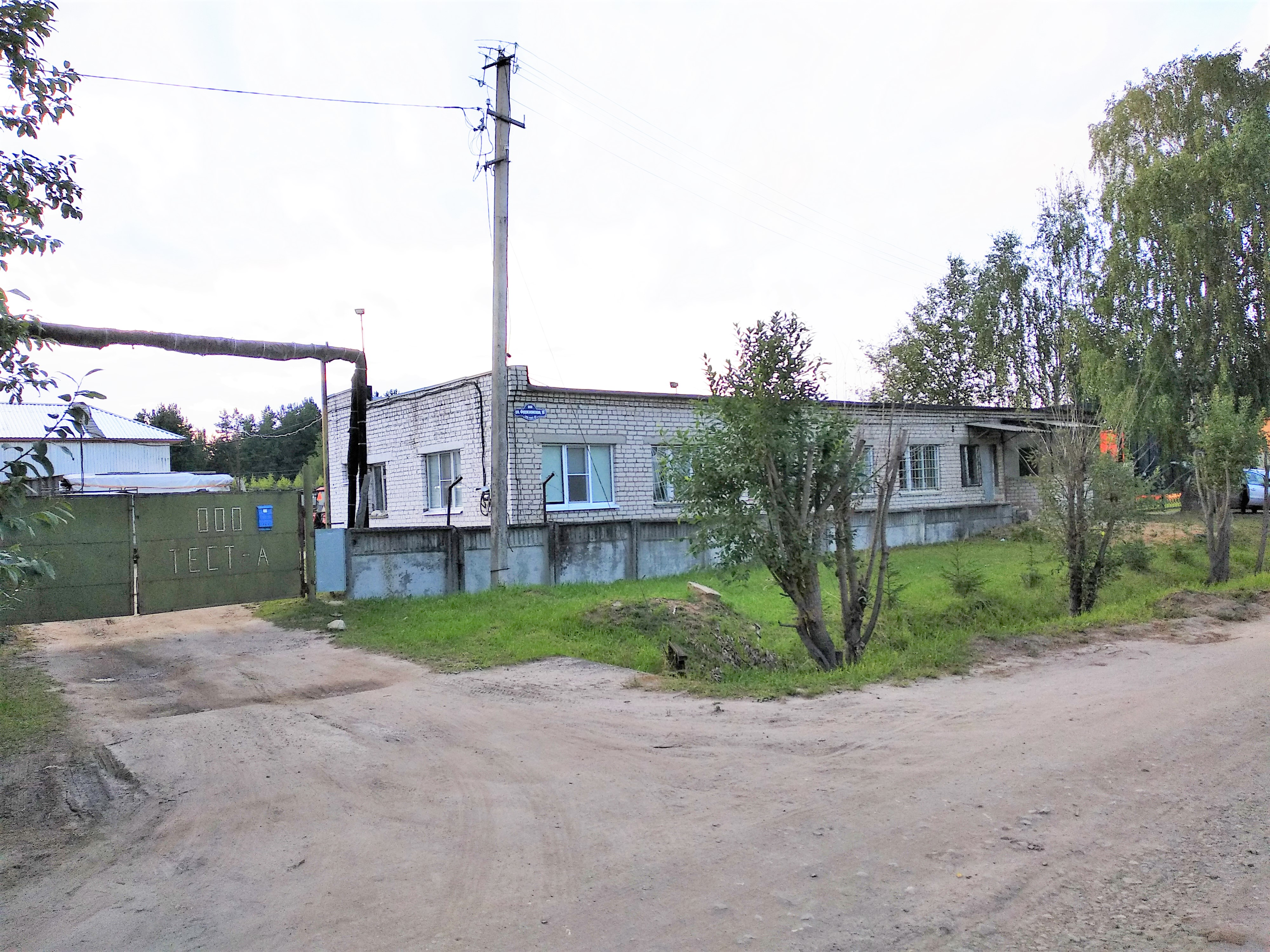 Test-A Management Company in Ishnya urban-type settlement